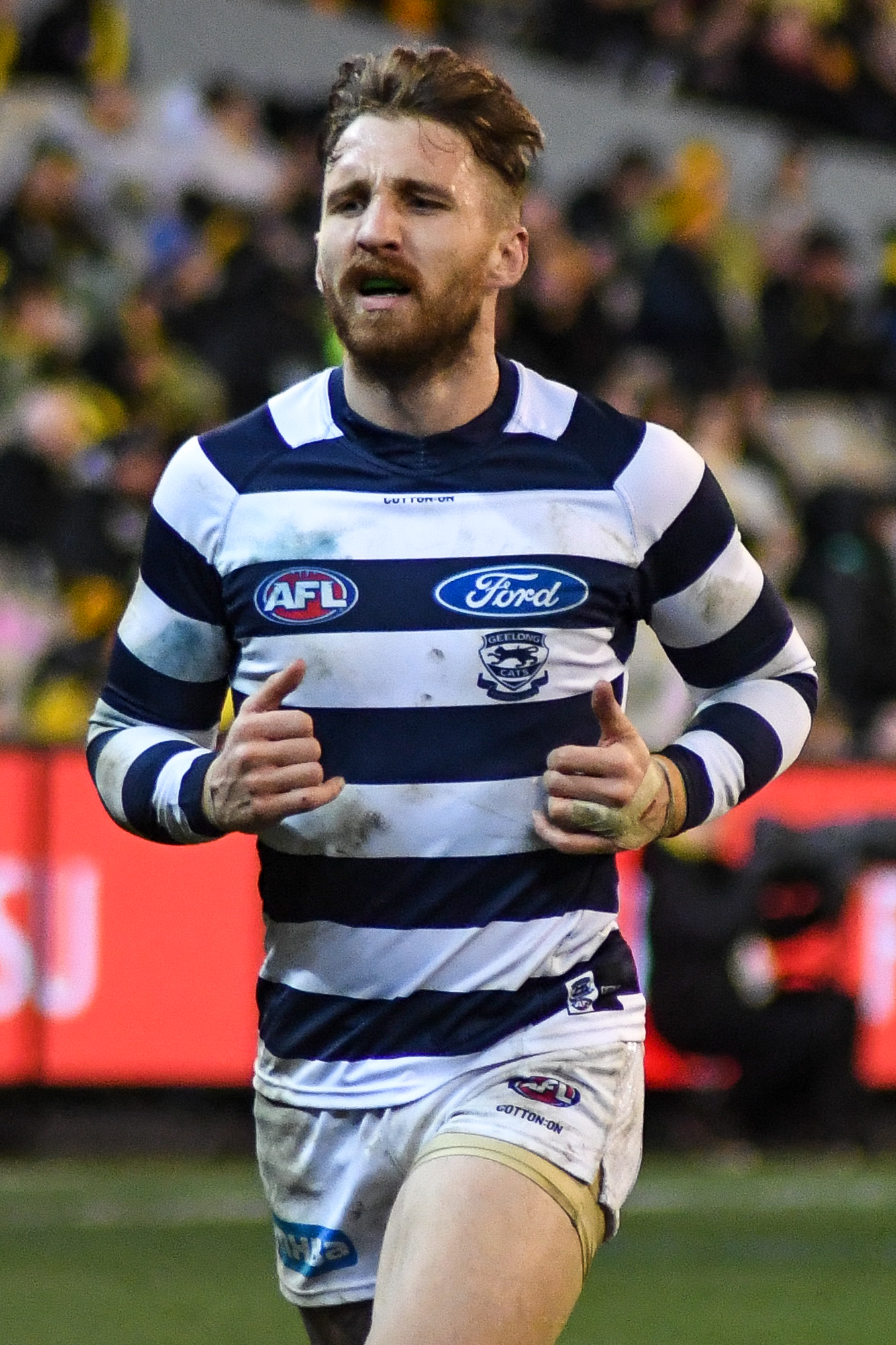 Zach Tuohy of Geelong during the 2018 AFL round 20 match between Richmond and Geelong at the Melbourne Cricket Ground on Friday, 3 August 2018 in Melbourne, Victoria.